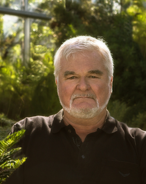 Photo taken in 2015 in the Botanical Garden of the University of Düsseldorf